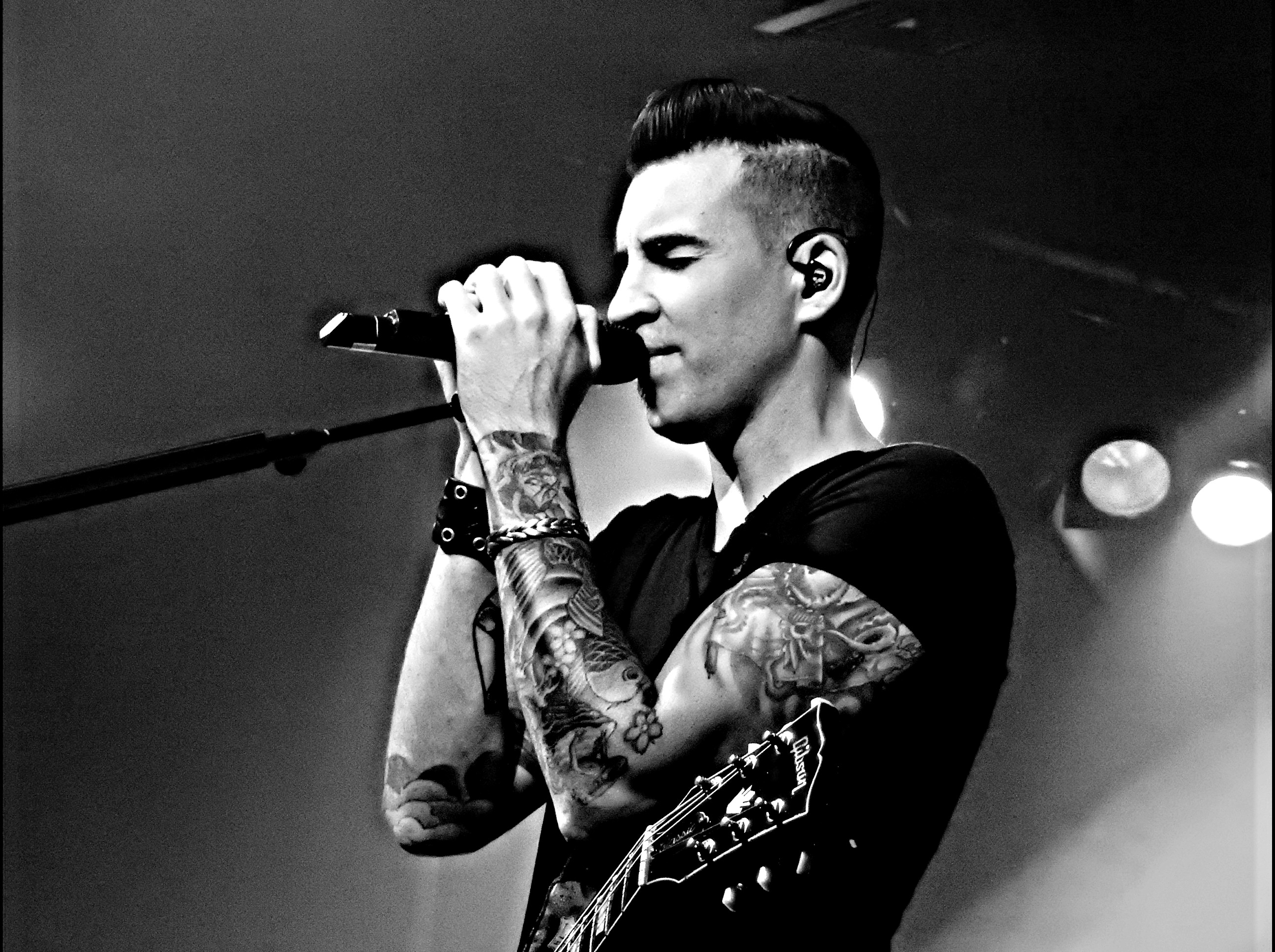 Theory of a Deadman, Scala, London